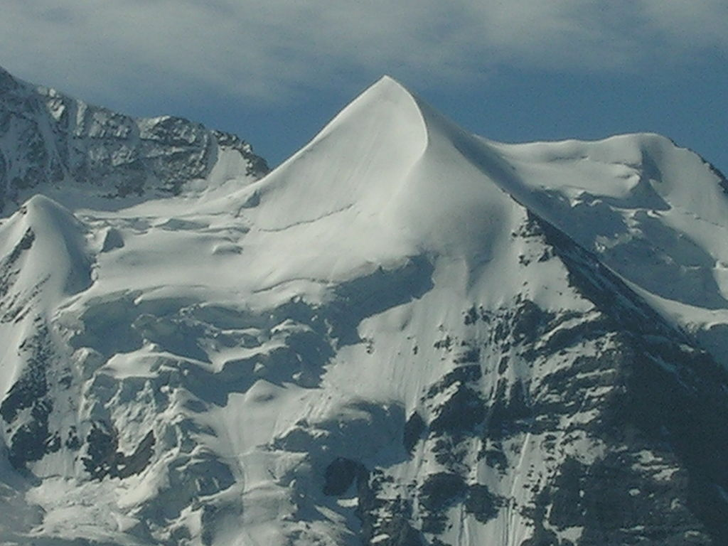 The Silberhorn mountain in Jungfrau region